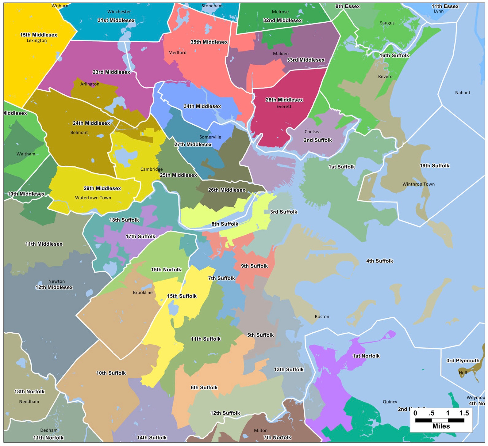 Map of Suffolk County districts of the Massachusetts House of Representatives. Also includes some districts in Essex County, Middlesex County, and Norfolk County.